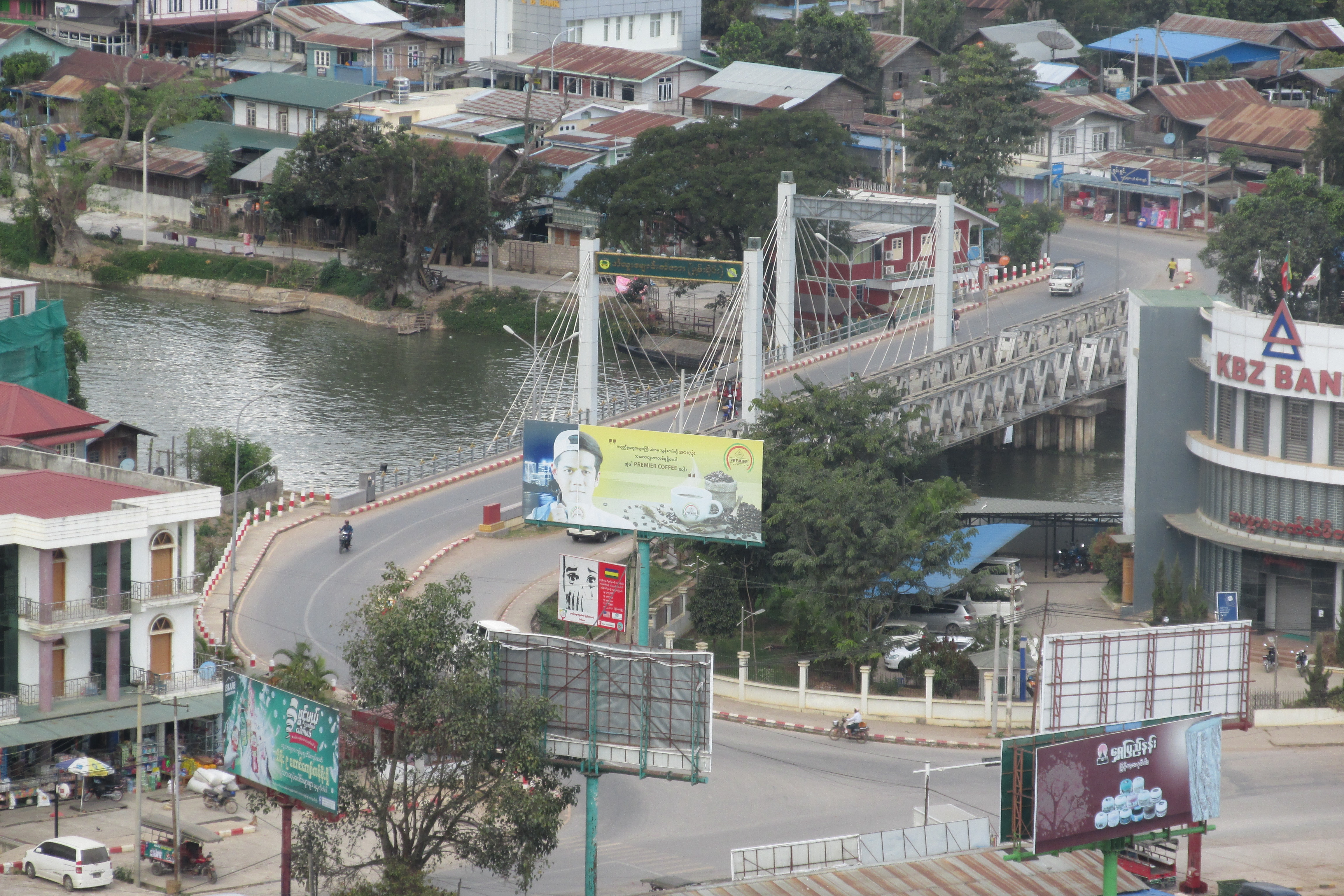 The Baluchaung Bridge (Shan Pine) of Loikaw မြန်မာဘာသာ: ဘီလူး​ချောင်းတံတား (ရှမ်းပိုင်း)၊ လွိုင်​ကော်မြို့